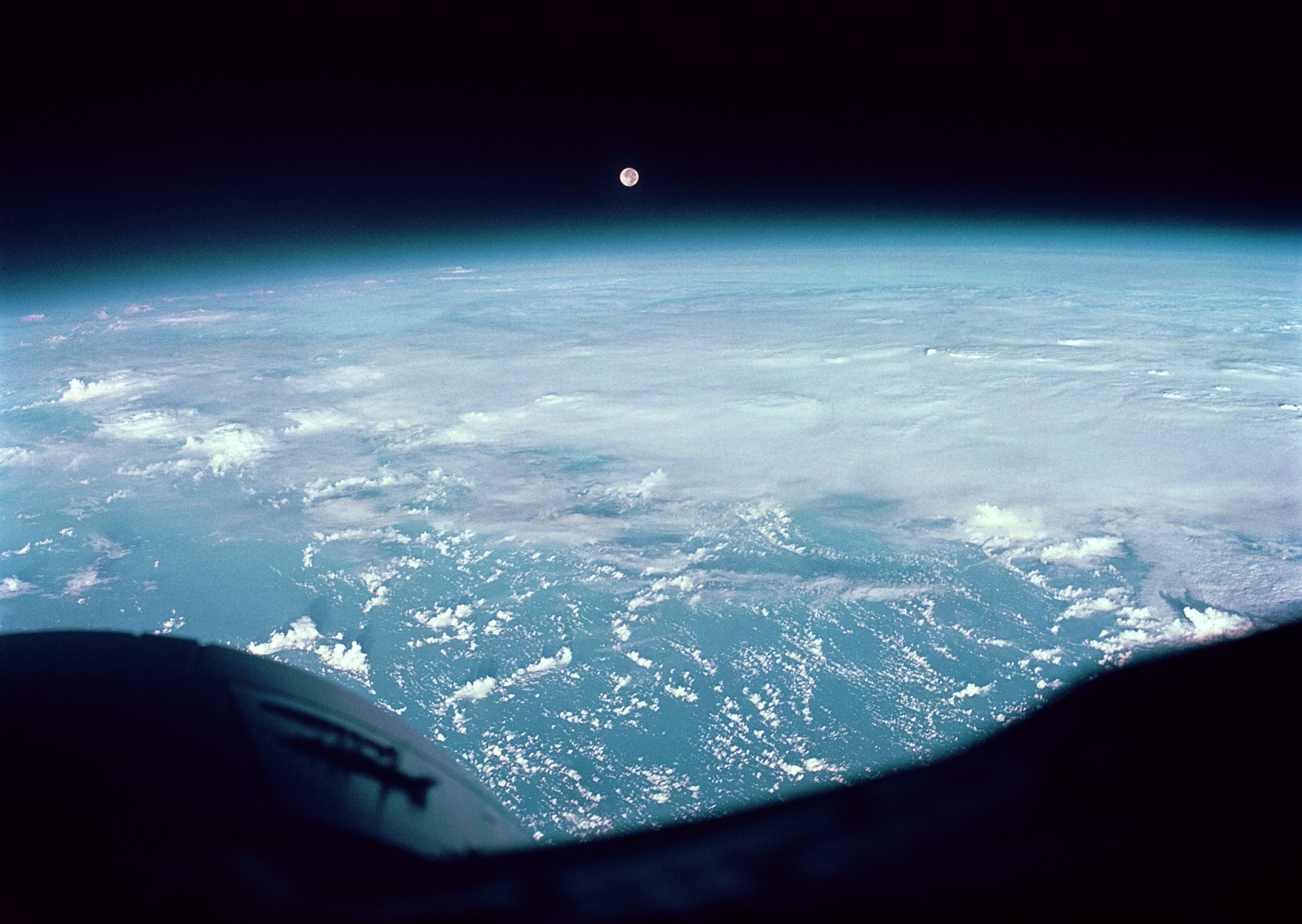 A bank of clouds over the western Pacific Ocean was photographed by Astronaut Frank Borman and James A. Lovell during the Gemini 7 mission. In the background the moon can be seen.